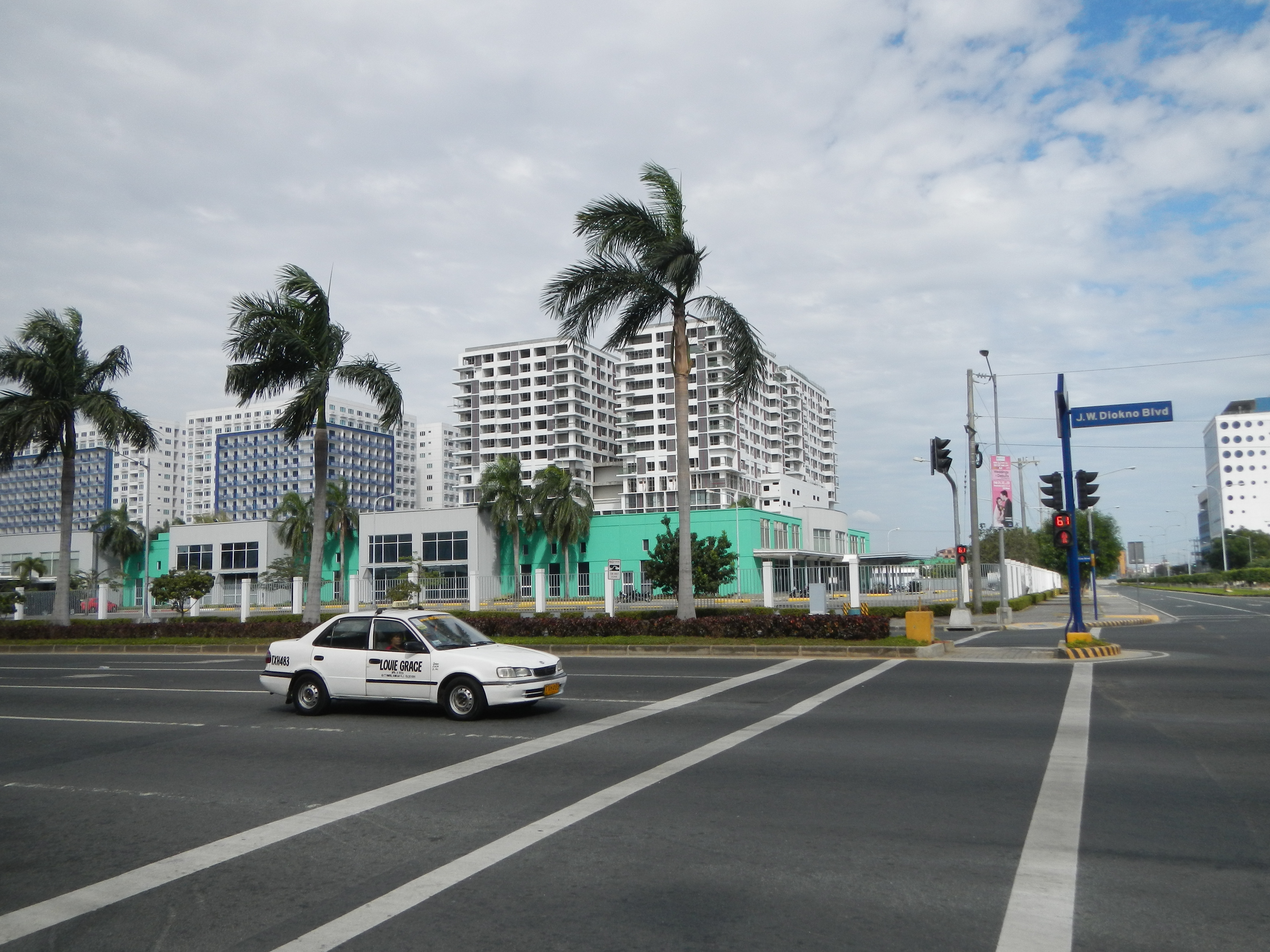 Upload Wizard photos of the - Redemptorist Bridge City (Bay City, Metro Manila) , Philippine Reclamation Authority 57.5 meter bridge connecting Central Business Park I Island A and Central Business Park I Islands B and C - gateway to - Aseana City (Parañaque City) - Aseana Avenue [1] Coordinates: 14°31'37"N 120°59'16"E [2] 2nd Floor, Aseana Powerstation, Bradco Avenue cor. President Diosdado Macapagal Blvd. Aseana City, Parañaque [3] - in Bay City, Metro Manila [4] the reclamation area[5] located west of Roxas Boulevard on Manila Bay in Metro Manila, the Philippines asplit between the cities of Pasay [6] on the north side and Parañaque[7] on the south side beside the carpark ofSM Mall of Asia[8] (the fourth largest shopping mall in the world), and is considered an important part of the Mall of Asia Complex (a 60-hectare business and leisure park) owned by the SM Group of SM Prime Holdings and Mall of Asia Arena[9].